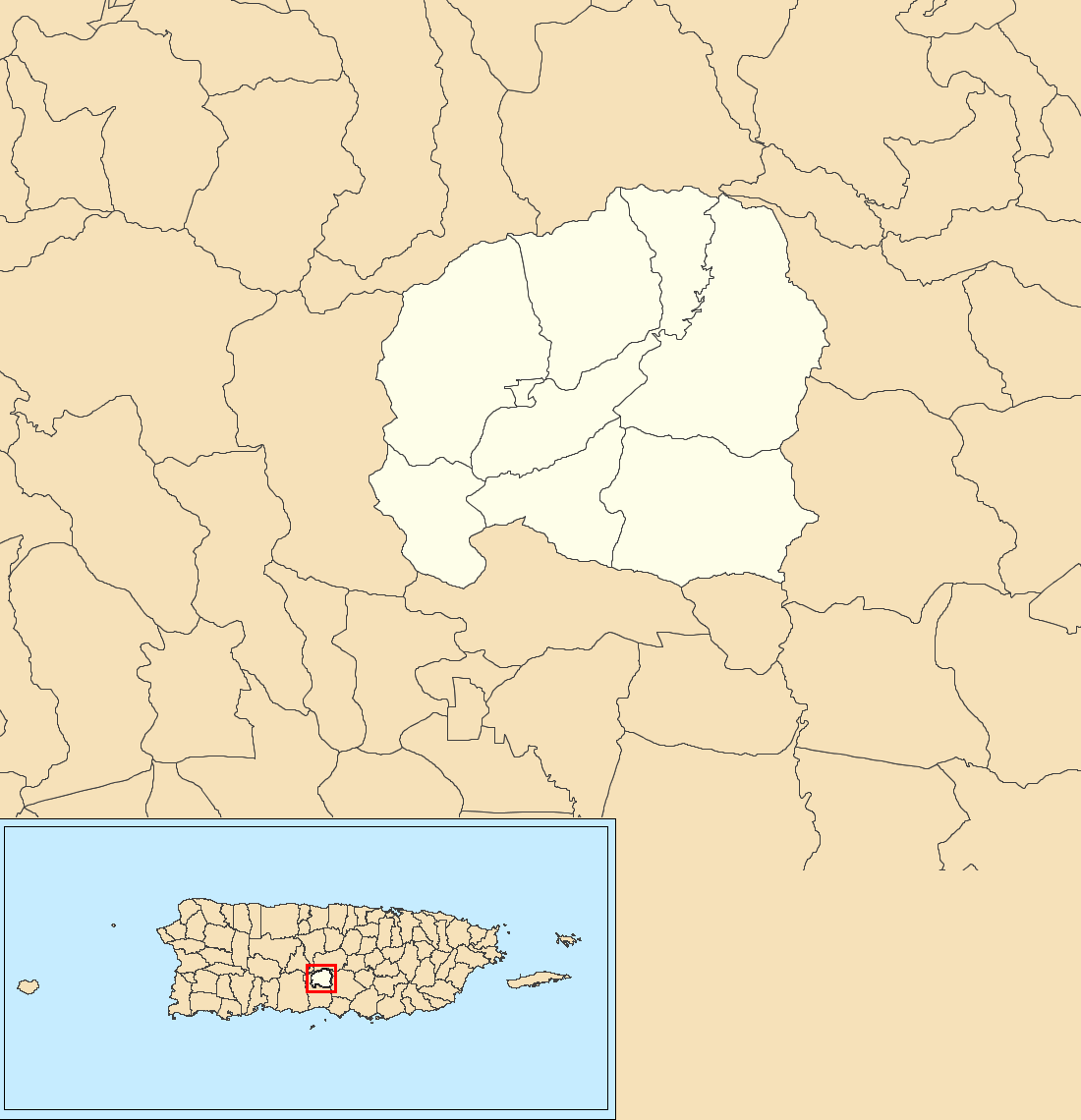 Barrios in the municipality. Map scale is 1:200,000